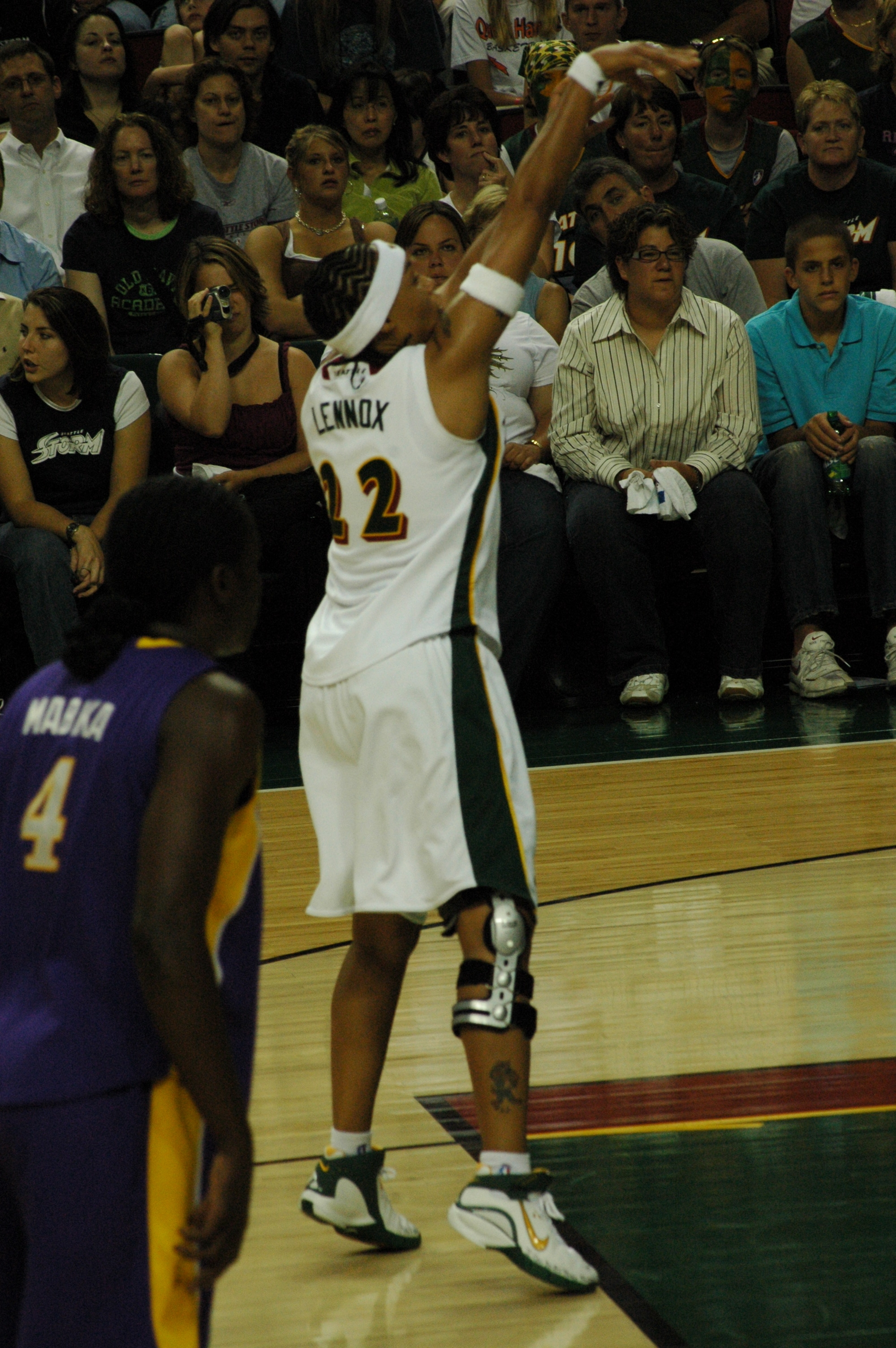 American professional basketball player Betty Lennox.